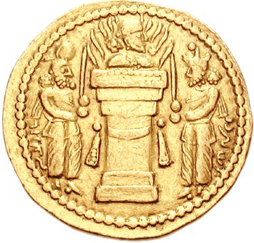 Reverse of a coin from Hormidz II